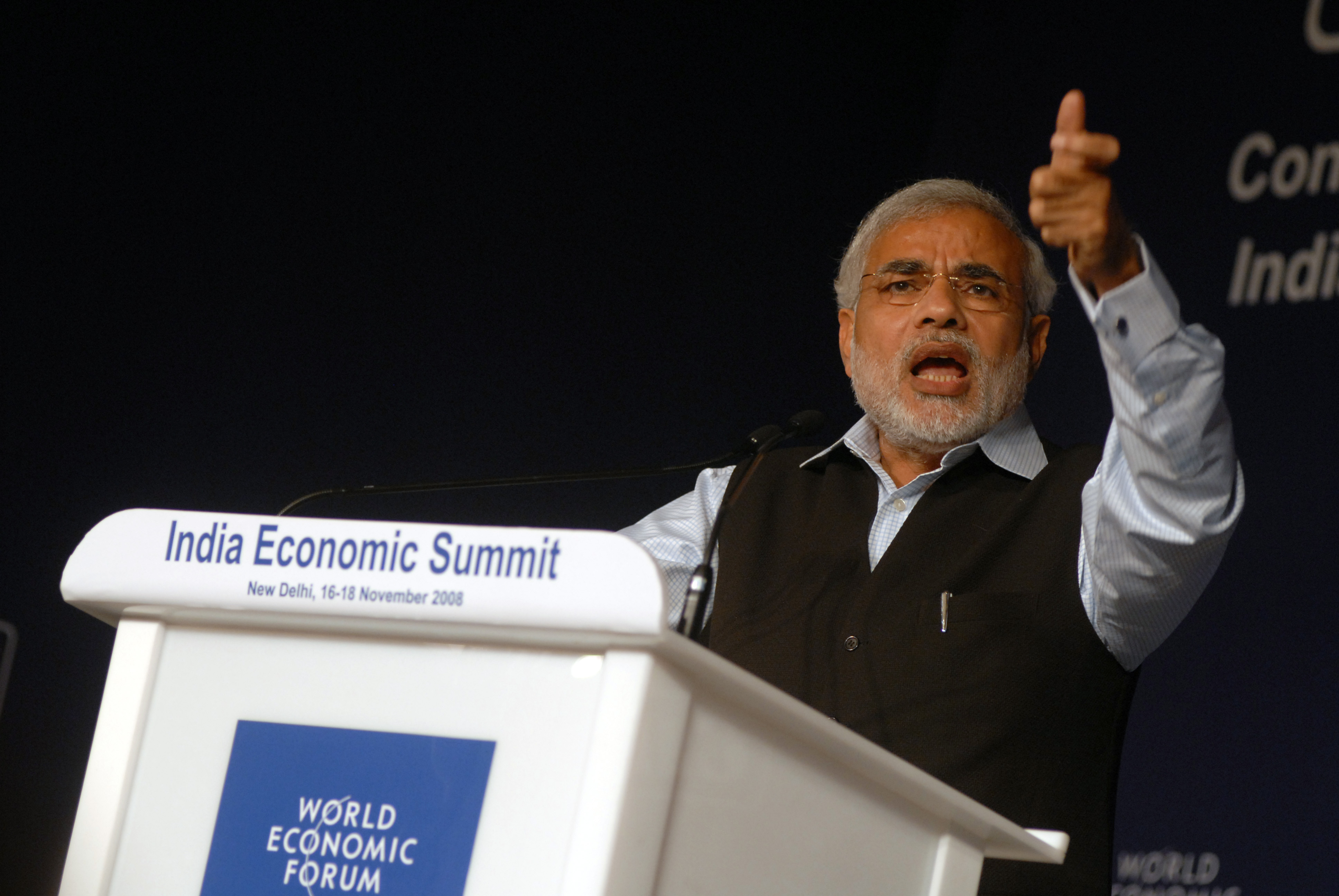 Narendra Modi, Chief Minister of Gujarat, India, speaks during the welcome lunch at the World Economic Forum's India Economic Summit 2008 in New Delhi, 16-18 November 2008.